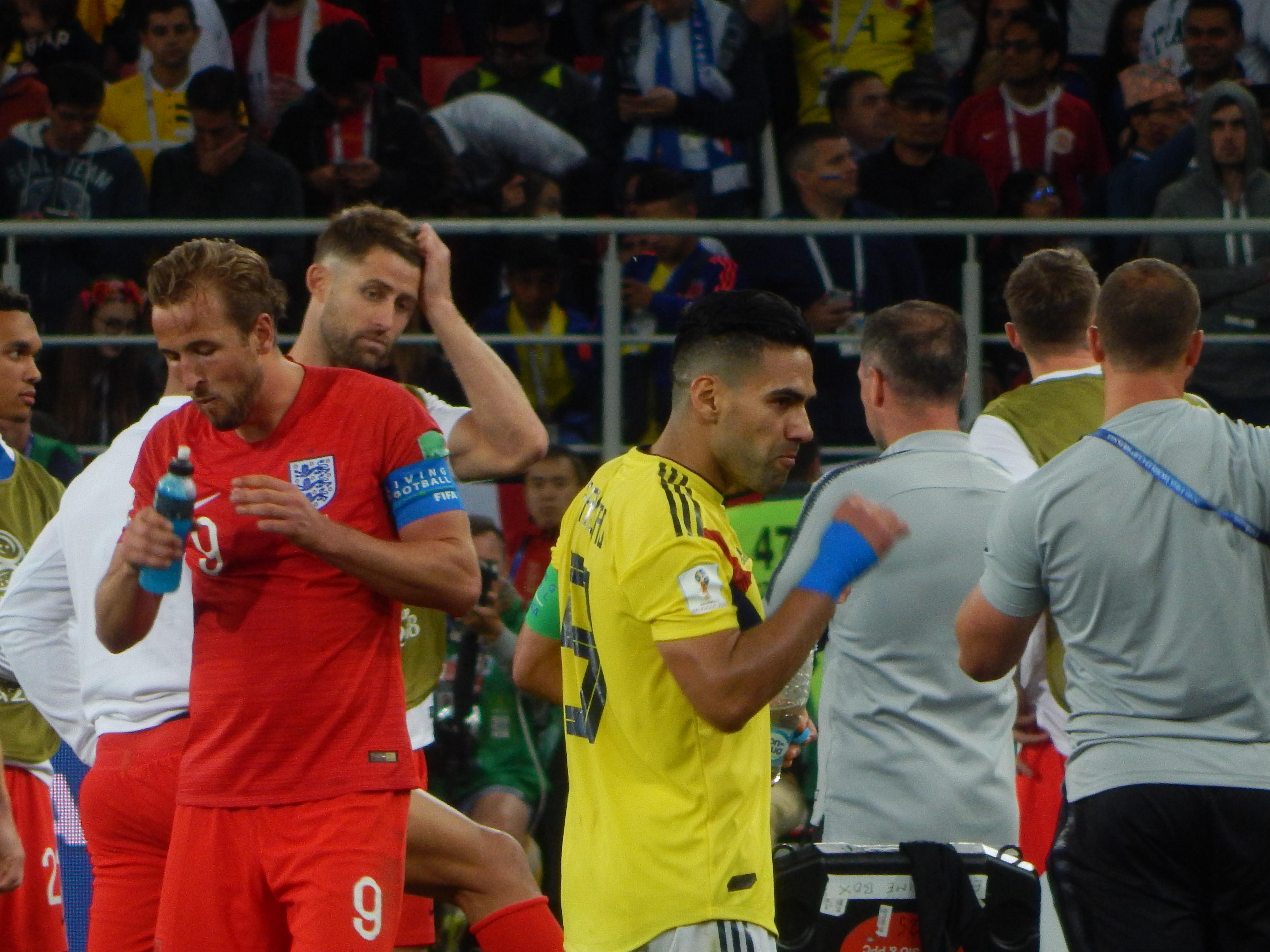 FIFA World Cup 2018, Round of 16, Colombia vs. England